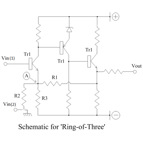 A simplified schematic of a transistor feedback amplifier